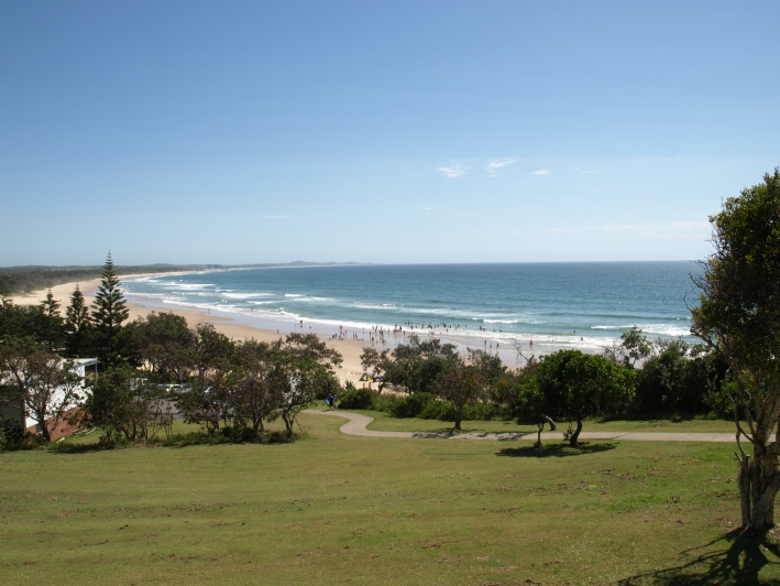 Rainbow Beach in front of Bonny Hills which is a small coastal village near Port Macquarie on the Mid North coast of NSW.